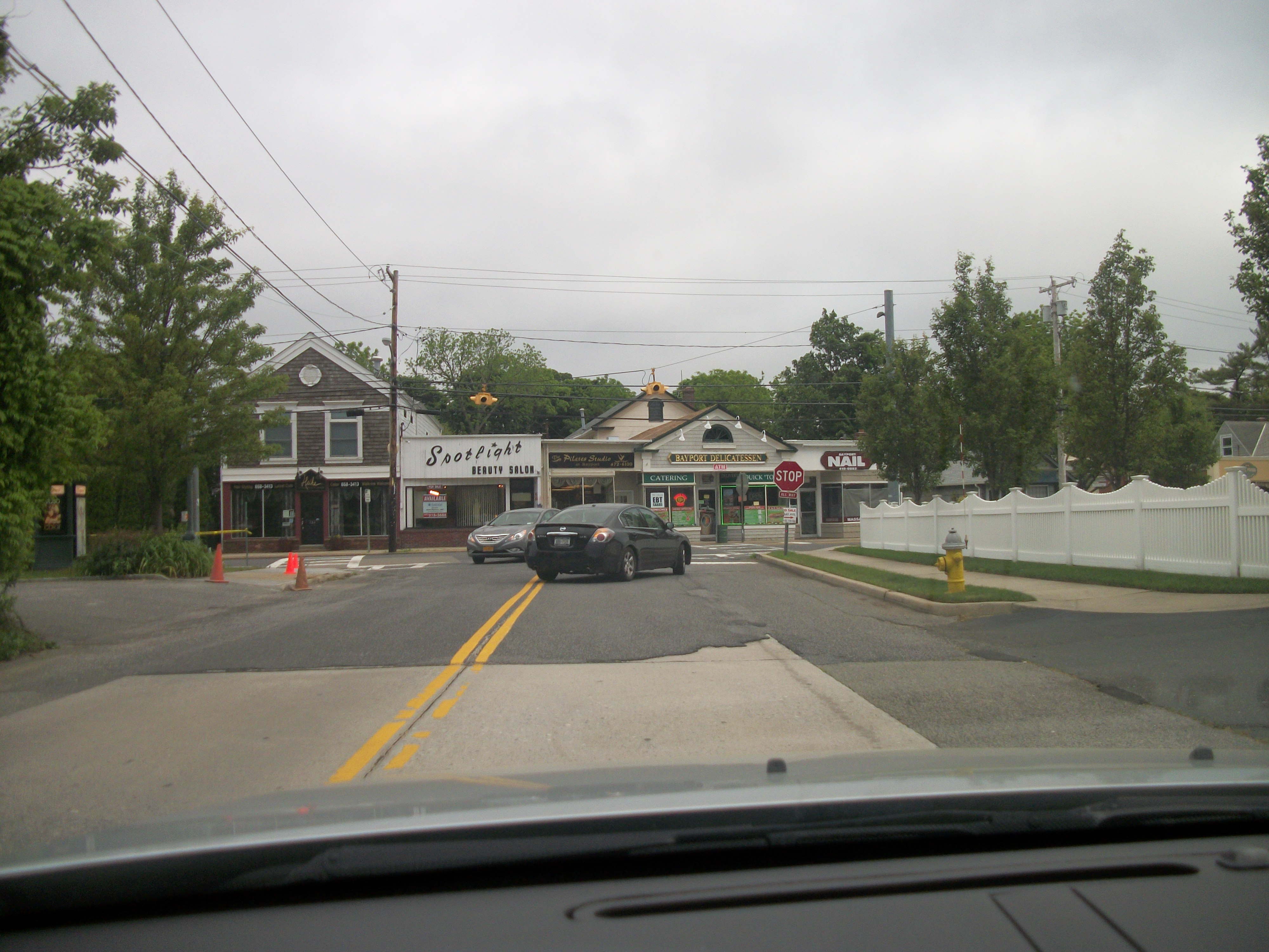 Southbound Bayport Avenue as it approaches Middle Road(Suffolk County Road 65) in Bayport, New York.